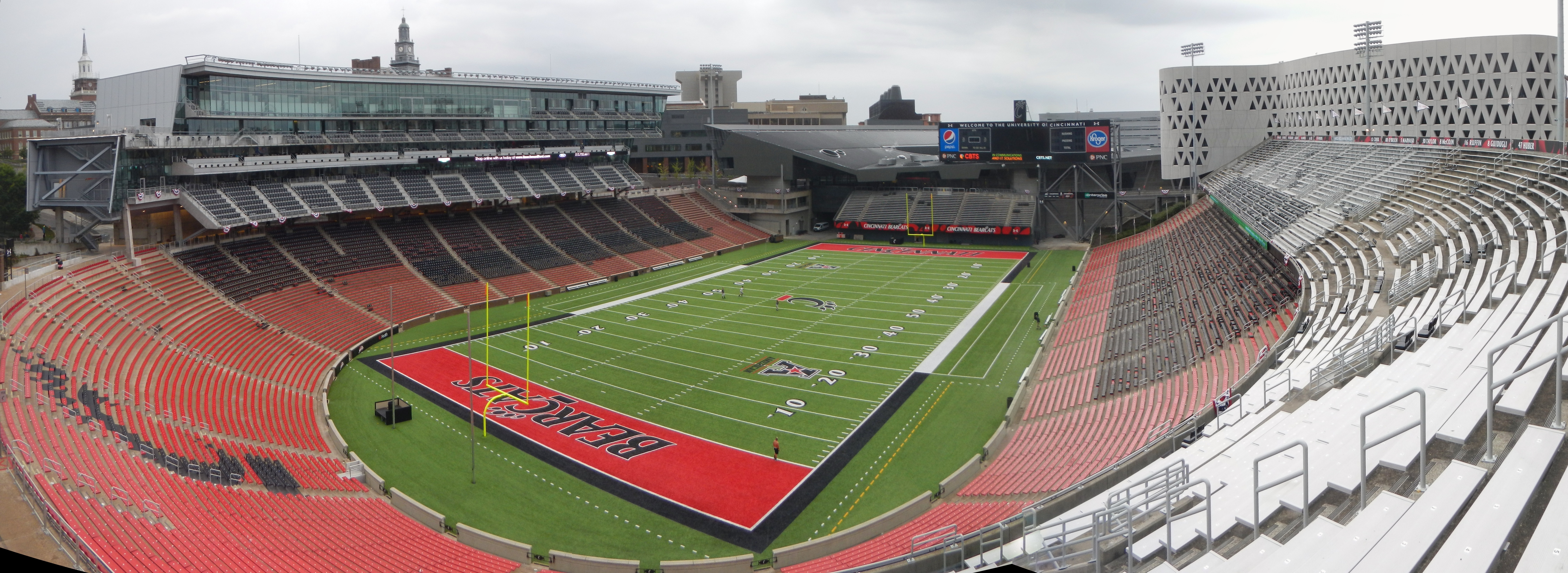 Nippert Stadium on the campus of the University of Cincinnati, shortly after renovations were completed in September of 2015.